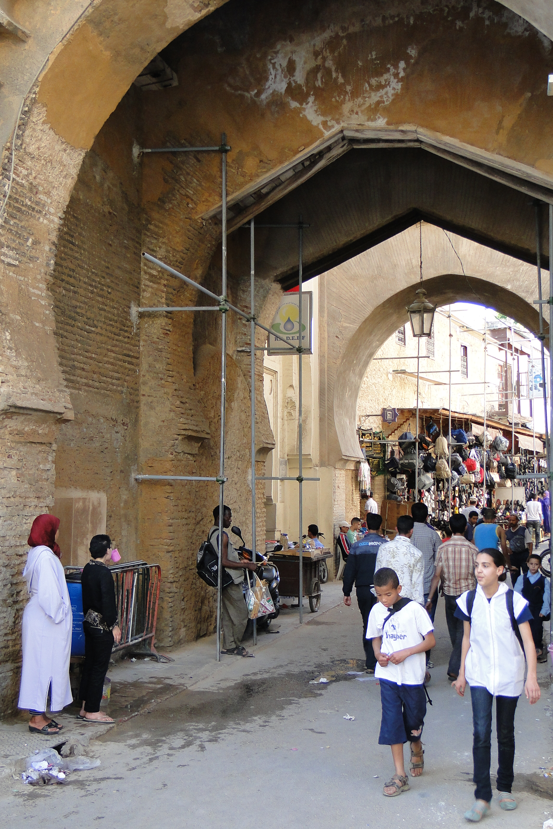 Entrance to Fez el-Jdid - Old Jewish Quarter - Fez - Morocco